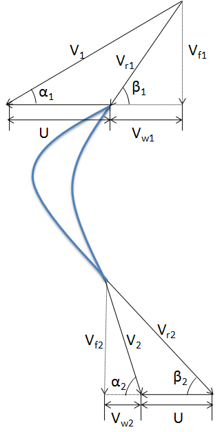 Blade Profile